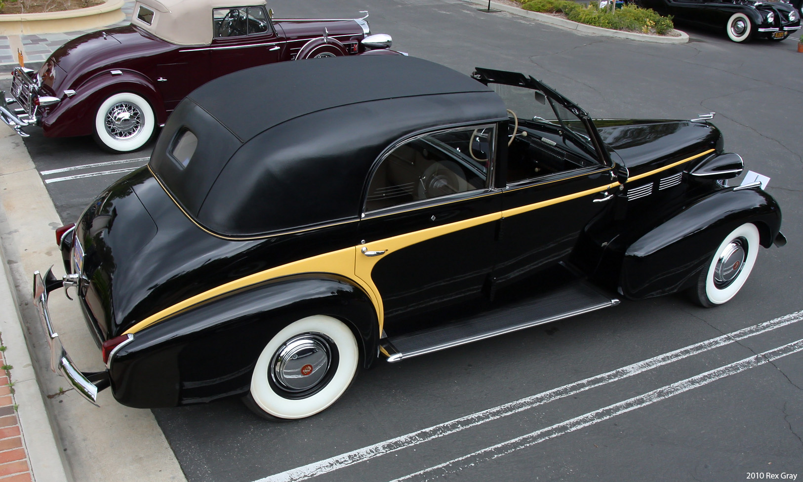 1940 Cadillac Town Car by Brunn, photographed at Greystone Mansion Inaugural Concours d'Elegance, April 11, 2010